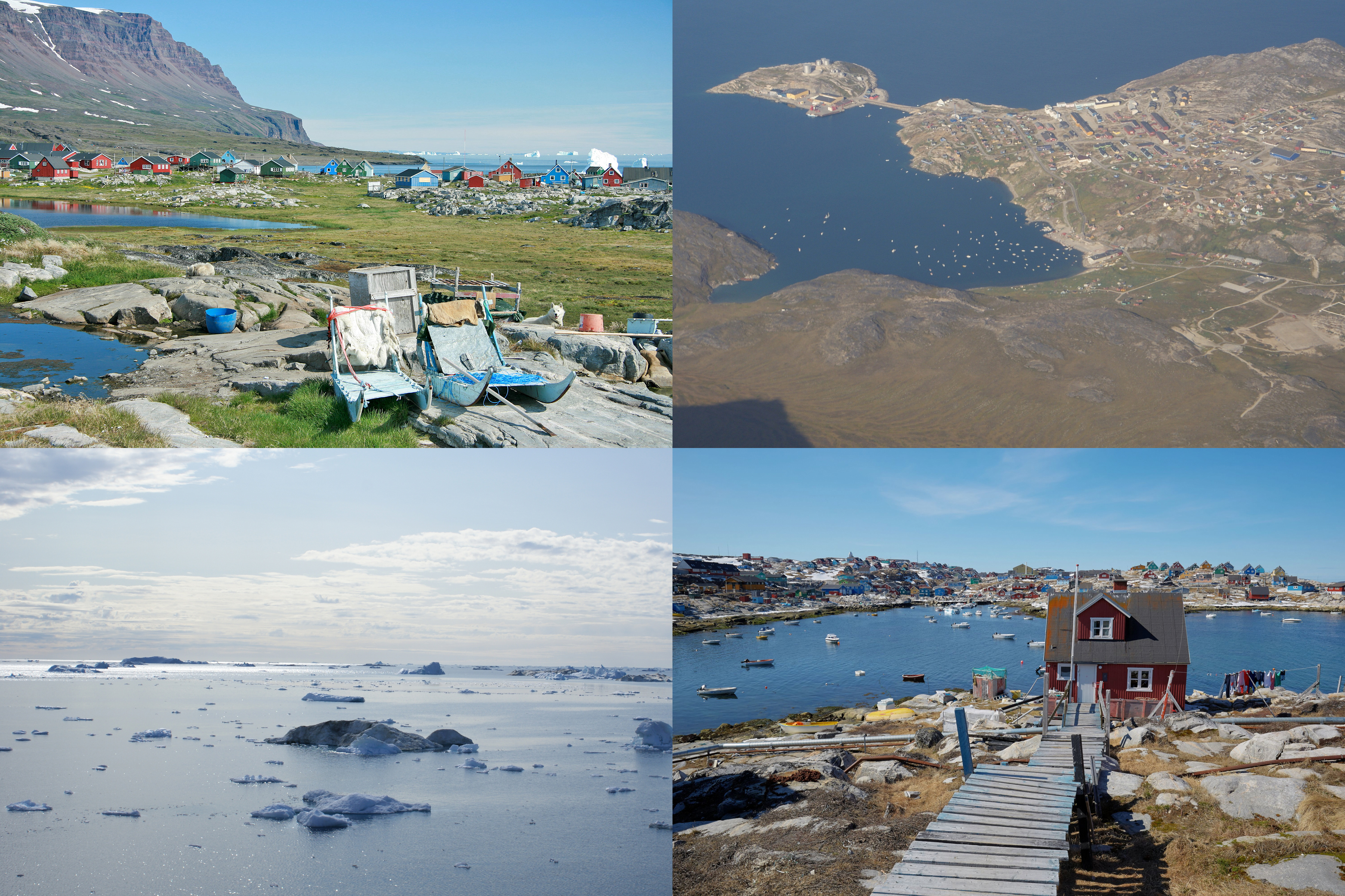 Montage of photographs from Qeqertalik Municipality, Greenland. top left: Qeqertarsuaq top right: Aerial shot of Qasigiannguit bottom left: Icebergs in Disko Bay bottom right: View to Aasiaat